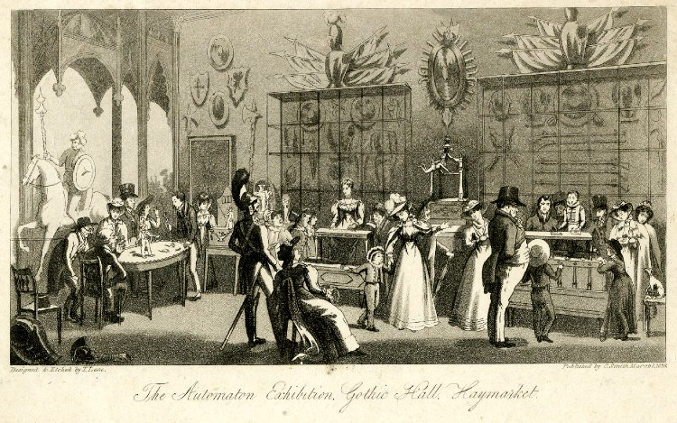 This is a scanned image of a print made by Theodore Lane (1800 - 1828) and published in 1826 by Charles Smith (1800 - 1852). The print depicts the Automaton Exhibition at Gothic Hall in Haymarket section of London. The scan of recto type was presumably done by The Trustees of the British Museum on an unknown date.